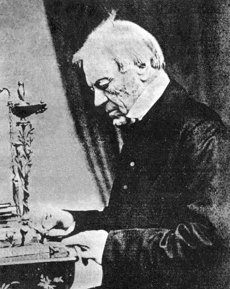 Sir John Richardson in his study at Lancrigg